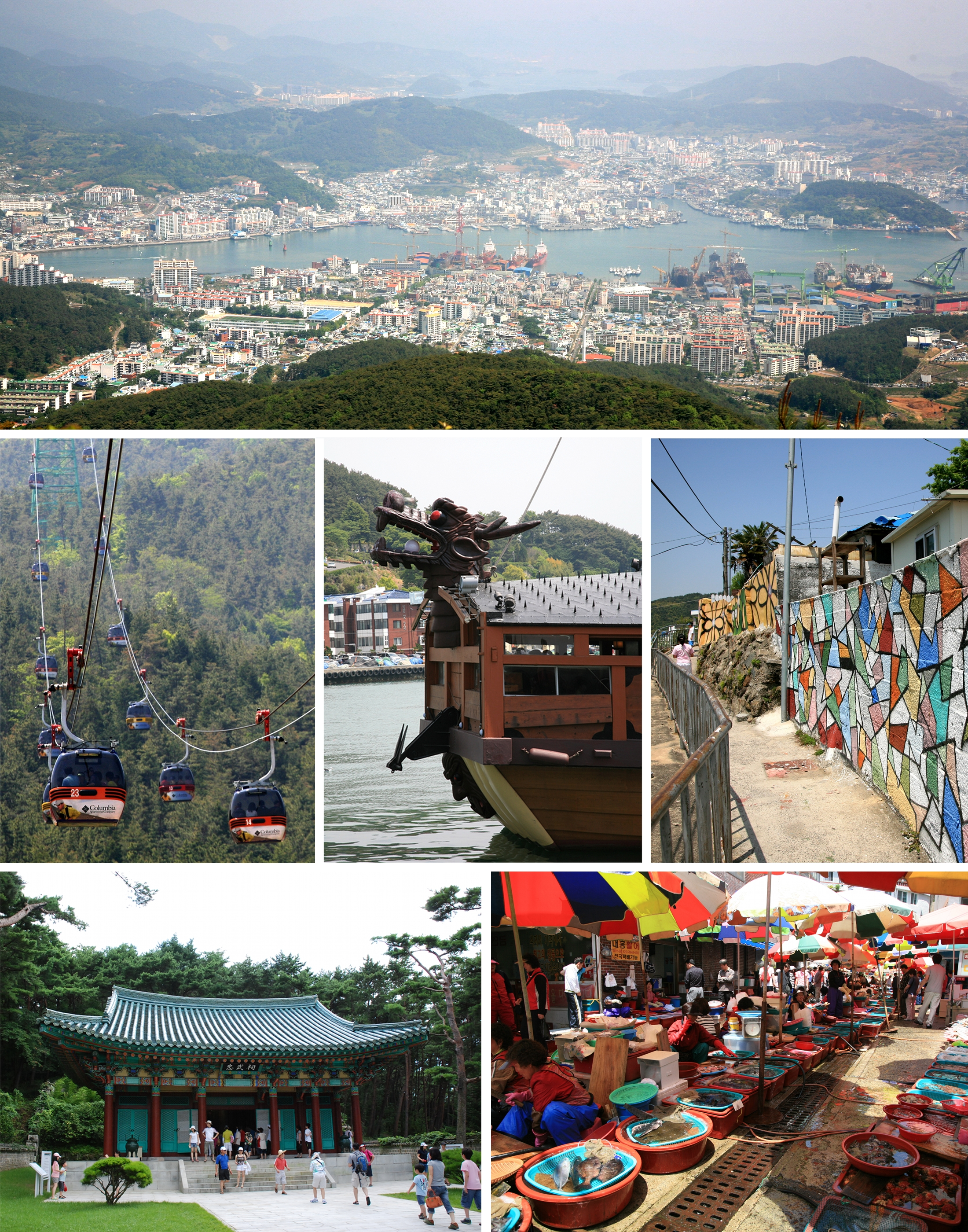 Derivative from six photographs on Commons of landmarks of Tongyeong, Gyeongsangnam-do, South Korea. Top: Hallyeo National Marine Park, Middle left: Hallyeo Waterway Observation Cable Car, middle center: Turtle ship replica, middle right: Dongpirang Village Bottom left: Chungmu Shrine on Hansando (Hansan Island), bottom right Jungang Live Fish Market.